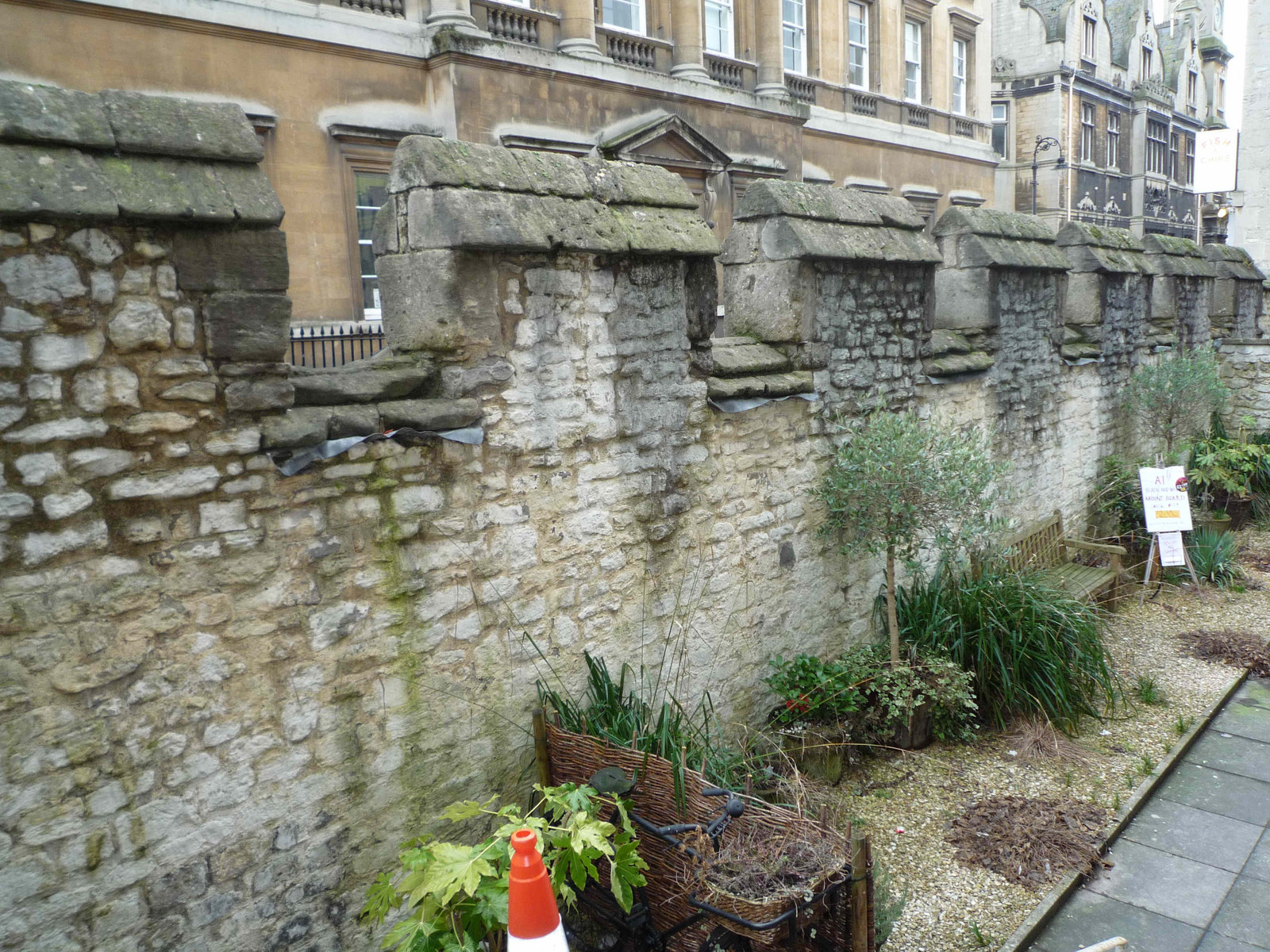 Medieval Wall The last part of the wall that surrounded Bath. Located in Upper Borough Walls opposite The Royal National Hospital for Rheumatic Diseases BA1 1RL. The picture shows the outside of the wall, so outside of the city limits. The area at the base of the wall was the burial ground or hospital cemetery.